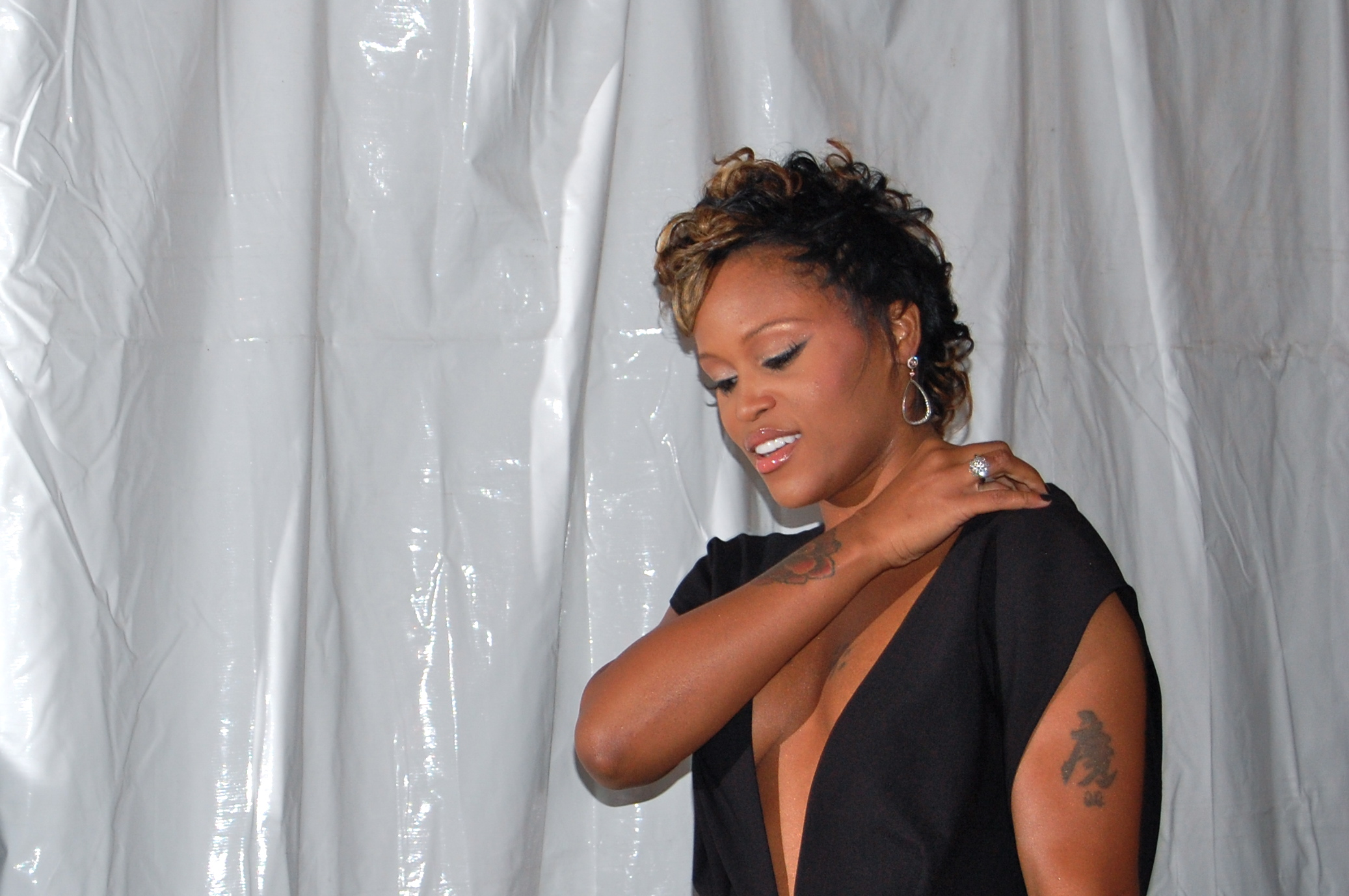 Whip It premiere - Ryerson Theatre - September 13, 2009